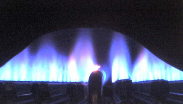 Natural gas burning